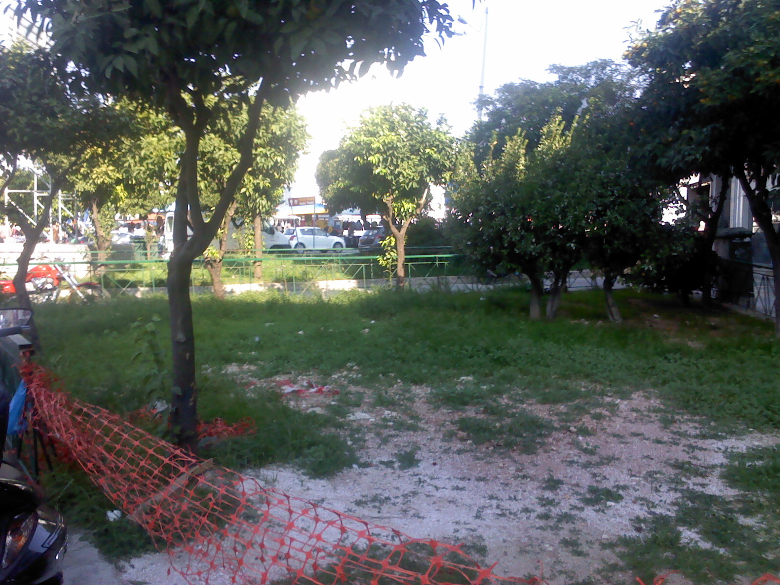 Square Ippodameias